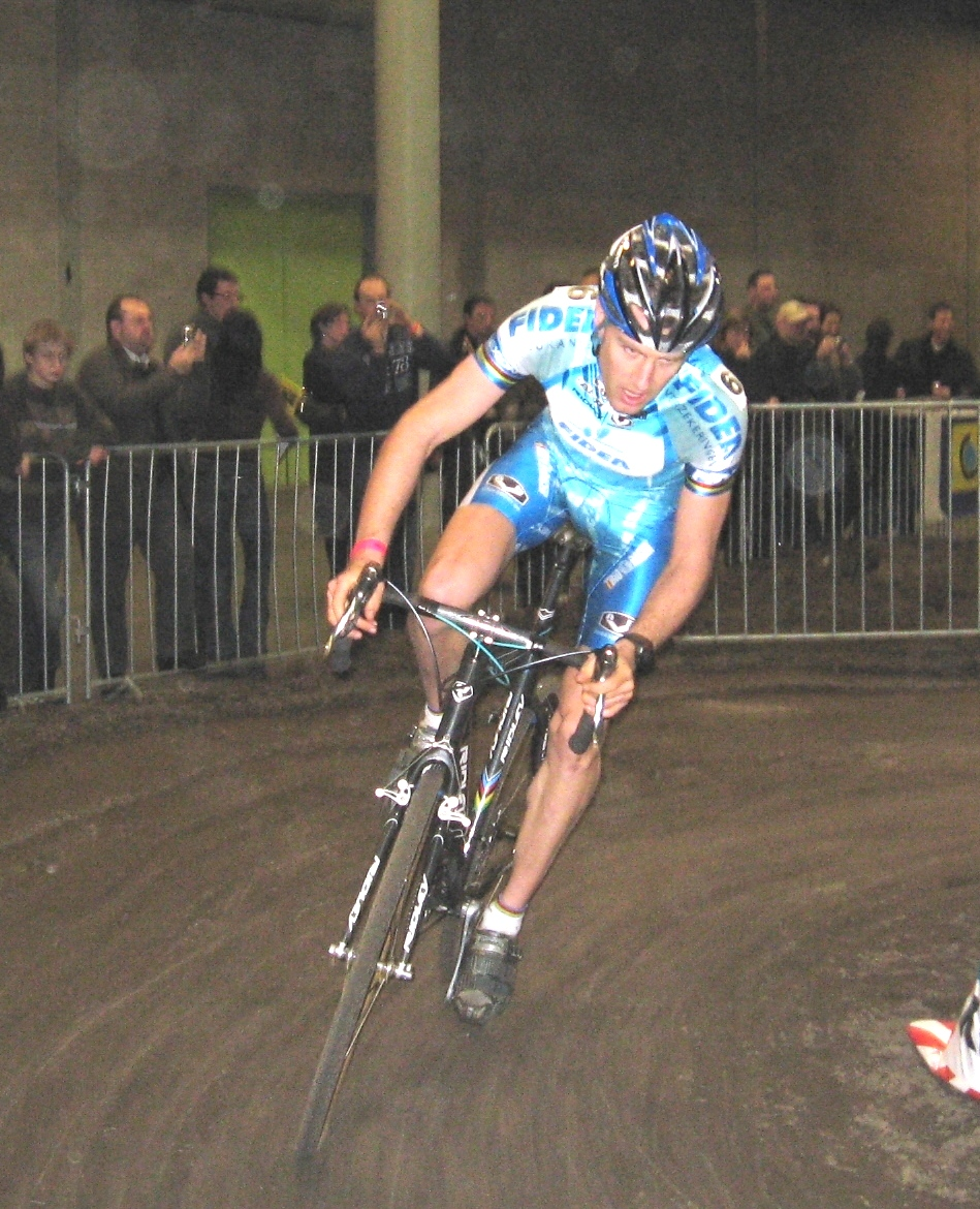 Erwin Vervecken in action during the indoor cyclo-cross race in Hasselt, Limburg, Belgium